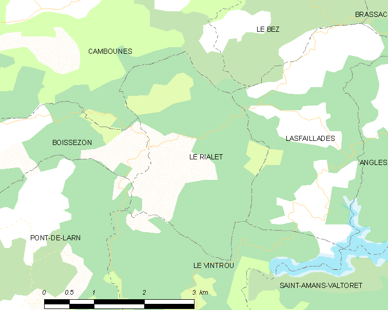 Map commune FR insee code 81223.png - Le Rialet